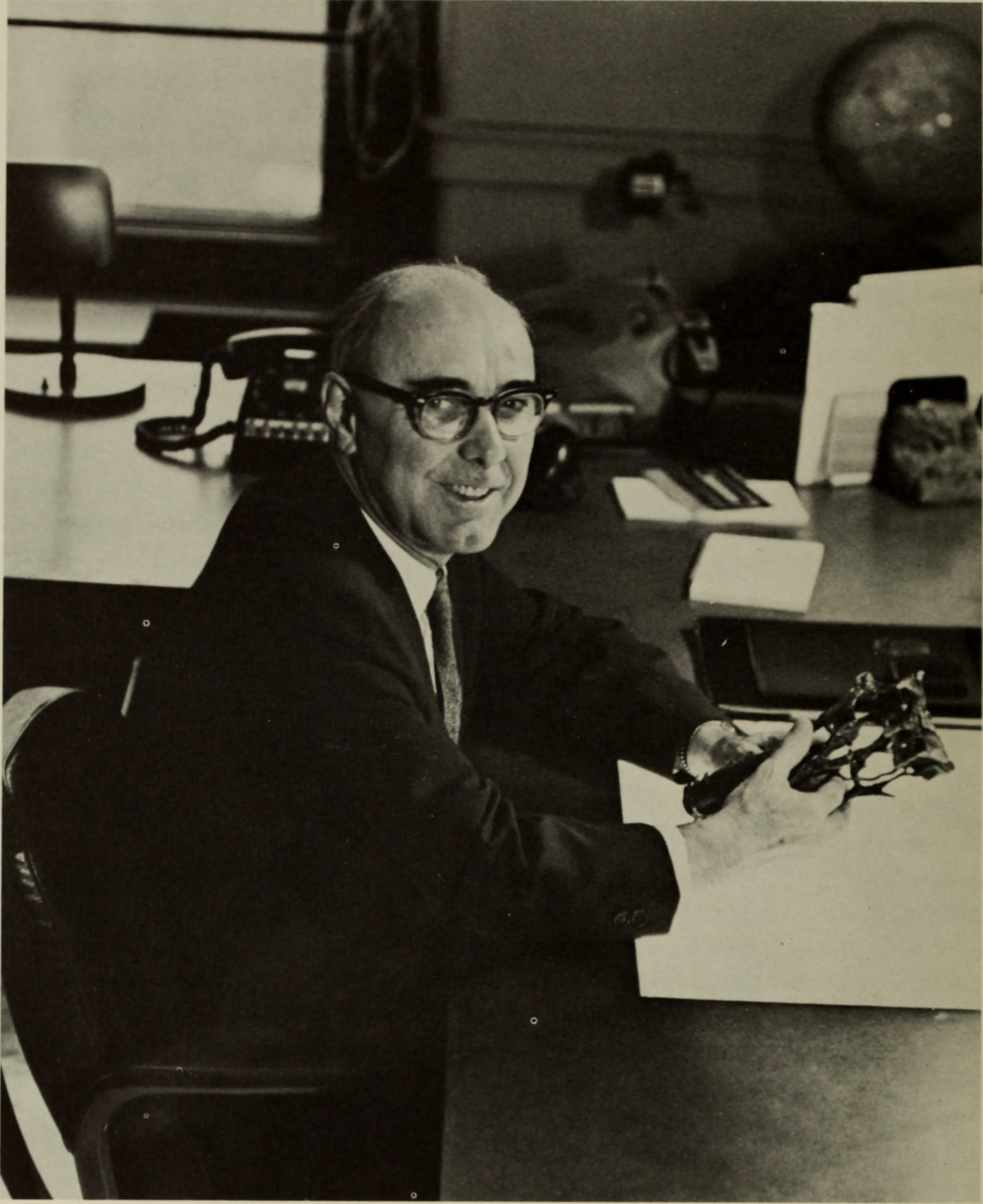 Title: A brief expedition into science at the American Museum of Natural History Identifier: briefexpeditioni00amer Year: 1969 (1960s) Authors: American Museum of Natural History Subjects: American Museum of Natural History; Naturalists; Natural history; Anthropology; Natural history museum curators Publisher: [New York? : The Museum?] Text Appearing Before Image: ' Text Appearing After Image: Edwin H. Colbert Curator, Department of Vertebrate Paleontology Joined the Museum Staff in 1930 B.A., 1928, University of Nebraska Ph.D., 1935, Columbia University Residence: Leonia, N.J.